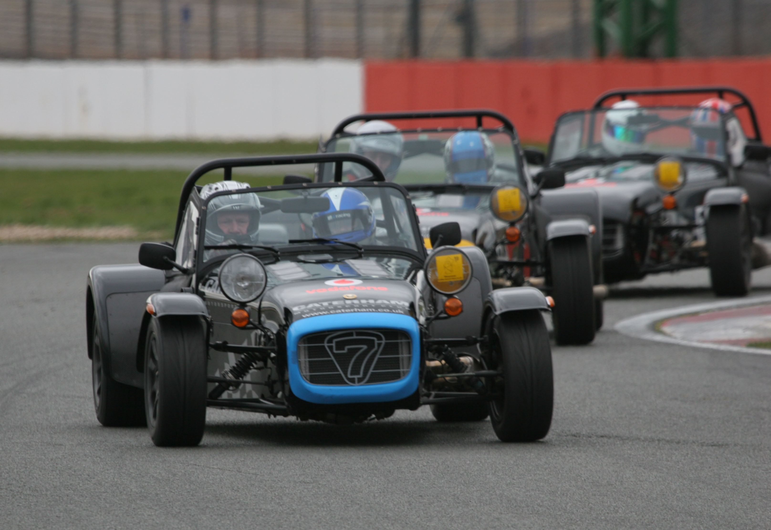 There are several of these but I was asked if I had taken any photos and I told them I had and they would be posted here